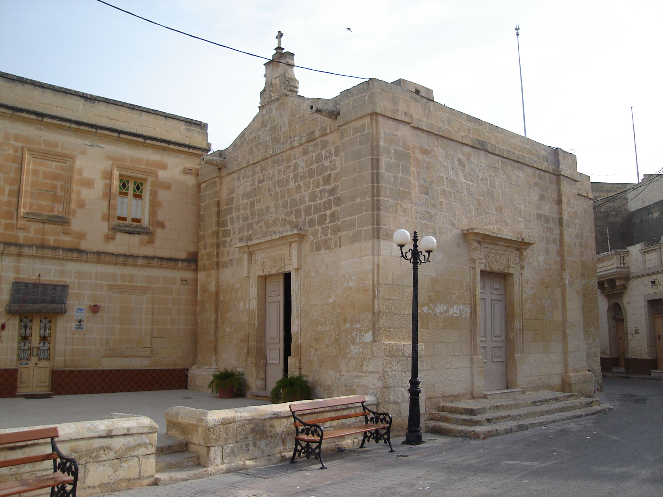 This photo was taken by me, IsaacBTTF, in September 2010.